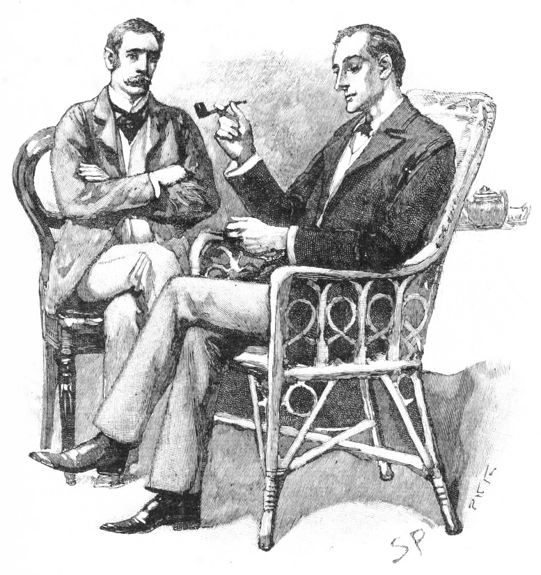 Illustration of the Sherlock Holmes adventure The Greek Interpreter, which appeared in The Strand Magazine in September, 1893. Original caption was "HOLMES PULLED OUT HIS WATCH."